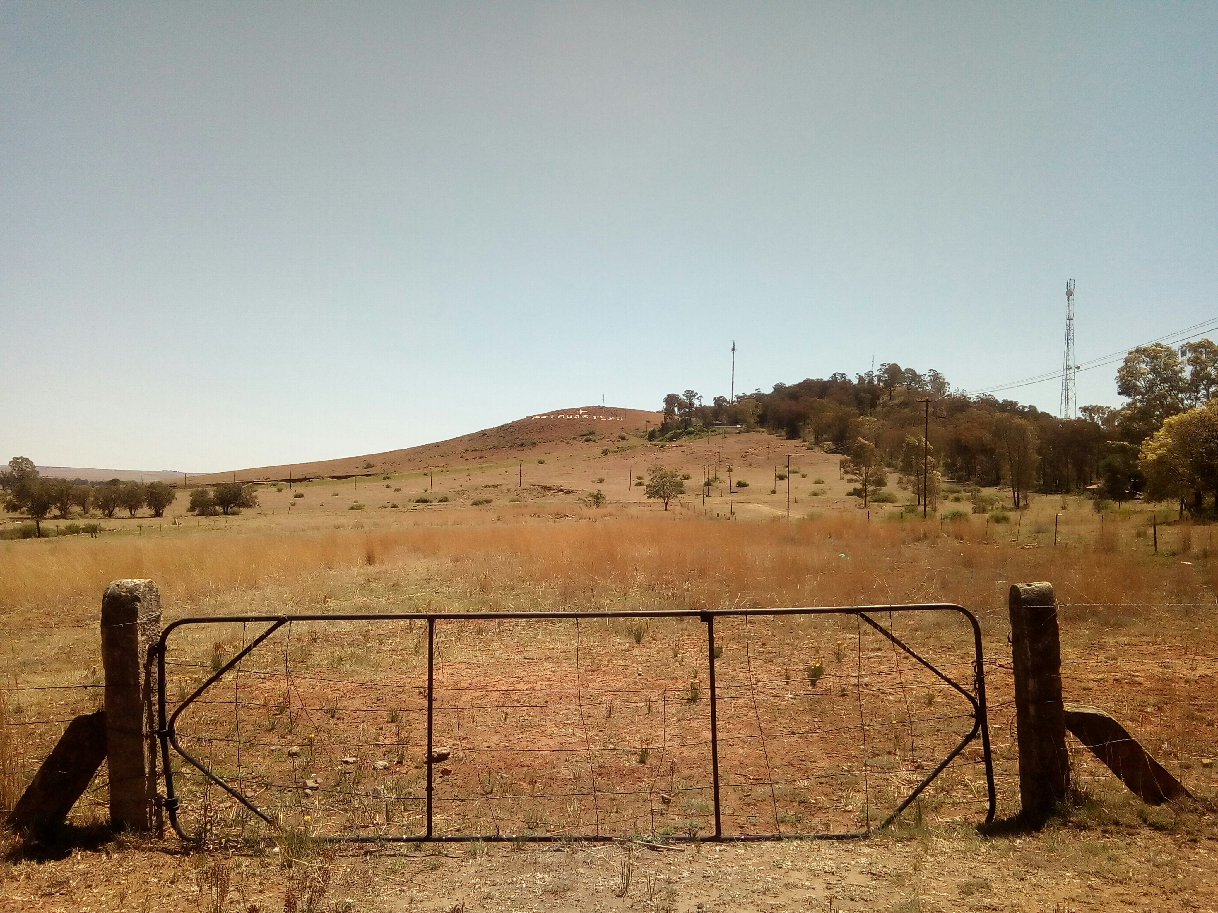 Elandskop outside Petrus Steyn, Free State, situated at an altitude of 1762m above sea level. It was once made famous by general De Wet who planned his attacks from its top or from the farm called Trommel, just outside Petrus Steyn. A heliograph was also employed from here to communicate across the British blockhouse lines which impeded the movements of Boer commandos. Such communication assisted in keeping general De Wet and president Steyn out of British hands. On a fine day one could establish communication to stations as far afield as Vredefort Road, President Koppie and Vereeninging! Old ruins can also be found on the koppie and could have been left behind by either the Boers or Brits. It is also rumoured that Moshoeshoe’s warriors used Elandskop during Mfecane for spying purposes. With Vegkop just 25km away, Mzilikazi impis would have also roamed the koppie at the time. Now nominated to be declared a heritage site, Elandskop is home to species like the ouvolk (sungazer), an endangered griddled lizard endemic to the Riemland region. When one hikes up the koppie one finds fauna and ancient plants for medicinal purposes. In honour of the koppie, a local history museum is named for Elandskop!